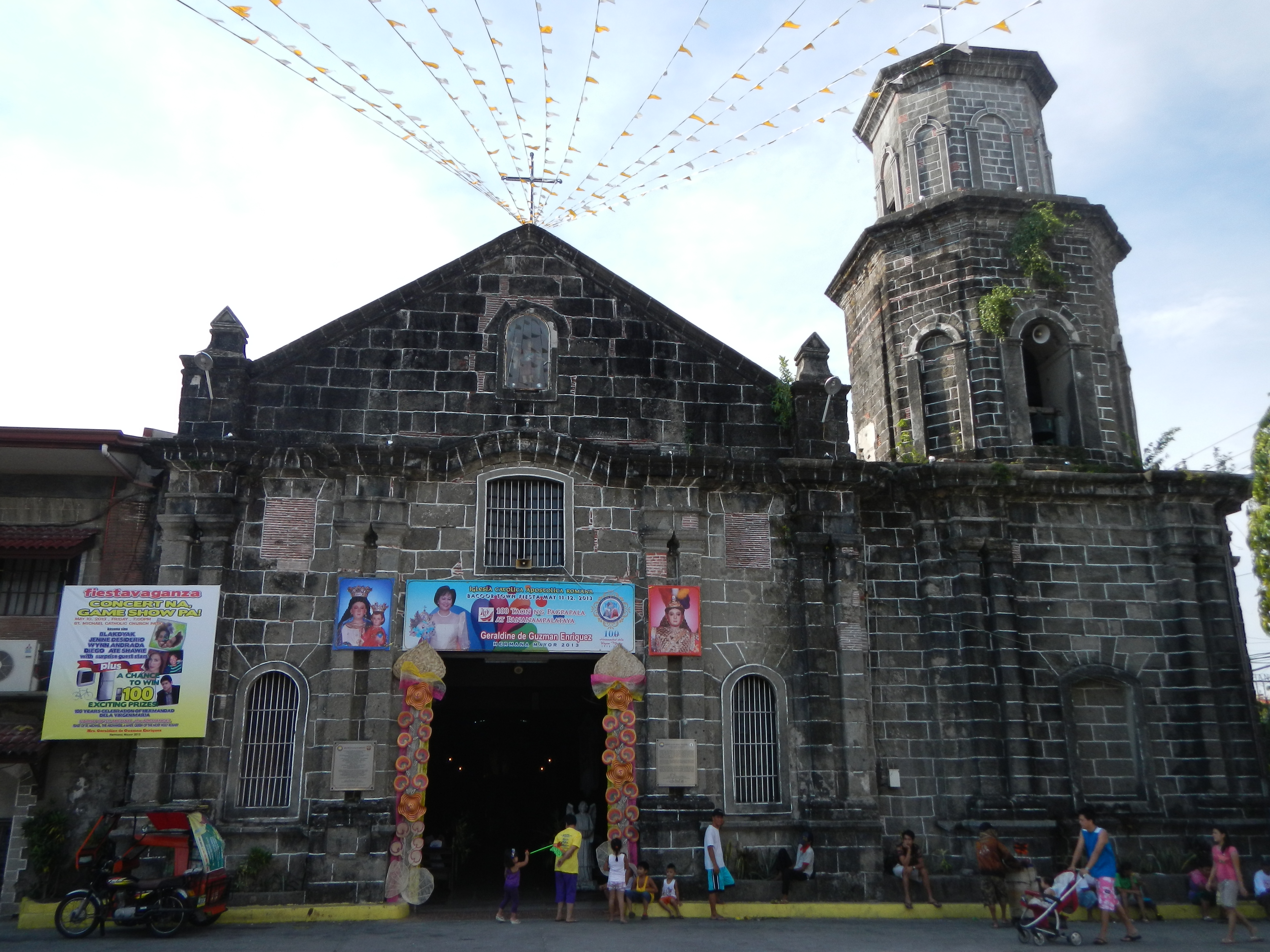 1752 Saint Michael the Archangel Parish Church of Bacoor - Proper (Jubilee Church) belongs to the Roman Catholic Diocese of Imus [1] District 1 District Coordinator: Rev. Fr. Antonio Roxas icariate of St. Michael, the Archangel Vicar Forane: Rev Fr. Conrado N. Amon Vicarial Representative: Rev. Fr. Jose S. Demoy[2] [3] Panapaan, Bacoor[4] Coordinates: 14°27'0"N 120°57'21"E[5] [6] [7] Bacoor was the first capital of the Philippine Revolutionary Government. The town was also the site of the Battle of Zapote Bride on two occasions, February 16, 189 (against Spanish forces) and June 13, 1899 (against the Americans).[8] On January 18, 1752, the King of Spain signed a royal cedula creating the Parish of San Miguel Arcangel in the town of Bacoor under the administration of a secular priest. One of its famous parish priests, Father Mariano Gomez[9]de los Angeles was a secular priest of Indio race who served the parish for 48 years. Mariano Gómez y Guard was a Filipino secular priest, part of the Gomburza trio who were falsely accused of mutiny by the Spanish colonial authorities in the Philippines in the 19th century. He was placed in a mock trial and summarily executed in Manila along with two other clergymen.[10][11]